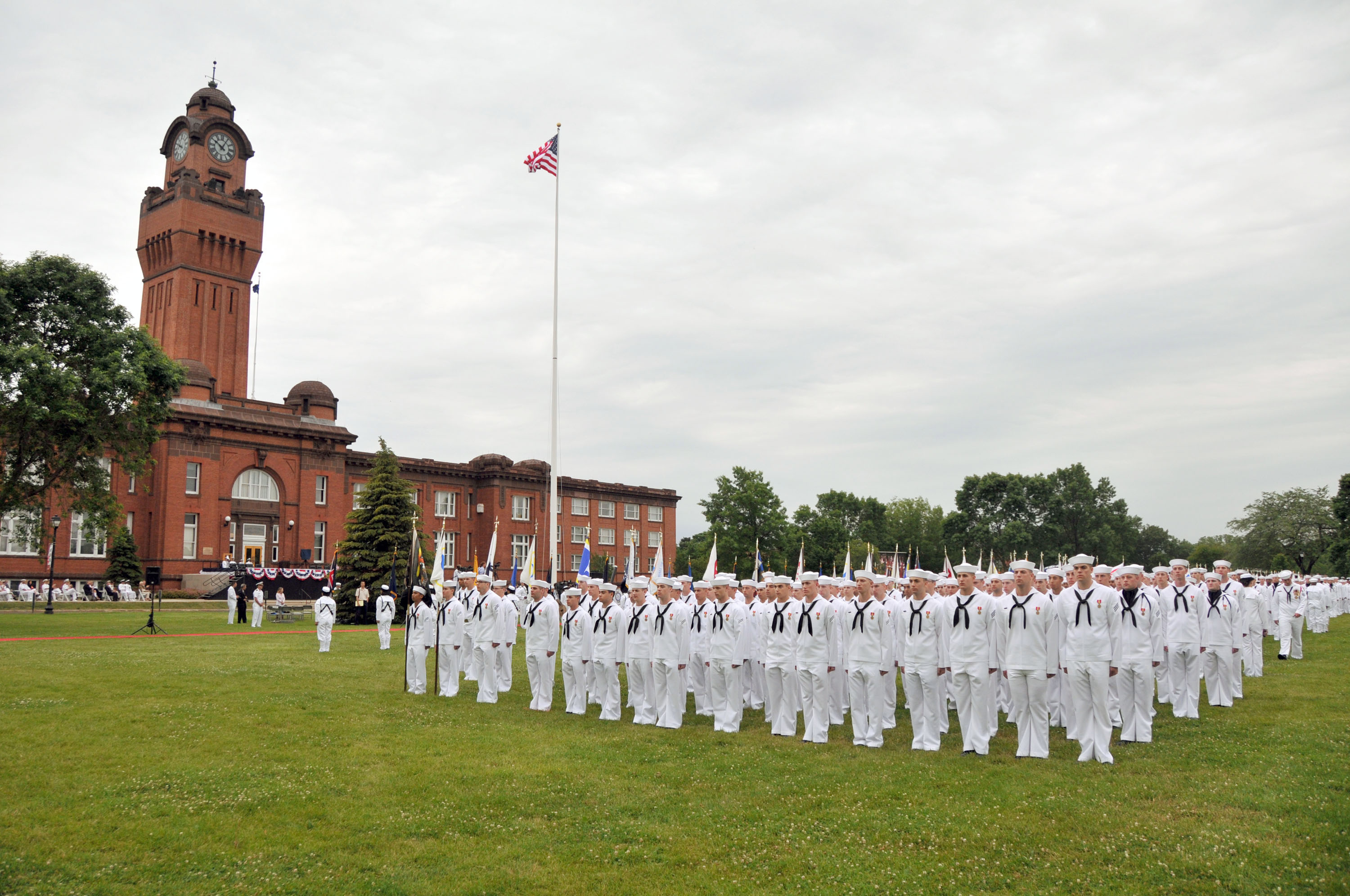 NAVAL STATION GREAT LAKES, Ill. (July 1, 2011) Recruits from Hall of Fame Division 813 stand at attention on Ross Field. The division, one of 11 divisions of 793 recruits at Recruit Training Command, took part in a special pass-in-review graduation ceremony to commemorate the naval station's centennial in front of the historic clock tower headquarters building that was dedicated July 1, 1911. It was the first outdoor graduation held on Ross Field since the 90th anniversary was celebrated on June 29, 2001. The Hall of Fame Division is recognized as the top division in a training group. (U.S. Navy photo by Scott A. Thornbloom/Released)